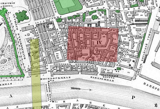 Map of Zaryadye, Moscow, Russia (or what's left of it). Historical background from 1836 Khotev's Atlas. Color coding (NVO): Green: existing buildings. Yellow: Moskvoretsky Bridge (1938). Red: Rossiya Hotel (1967).